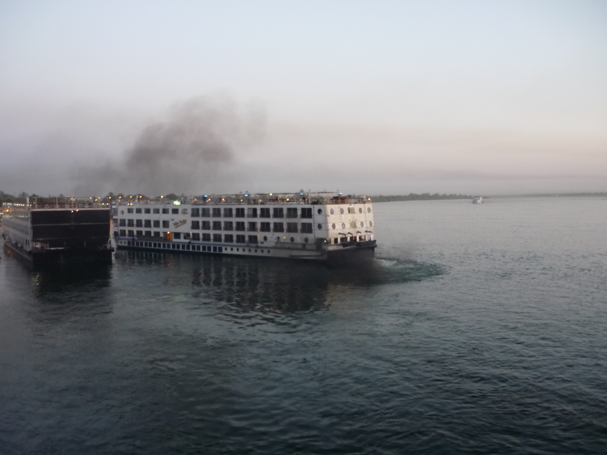 Smoking cruise ships on Nile at Kom Ombo, Egypt